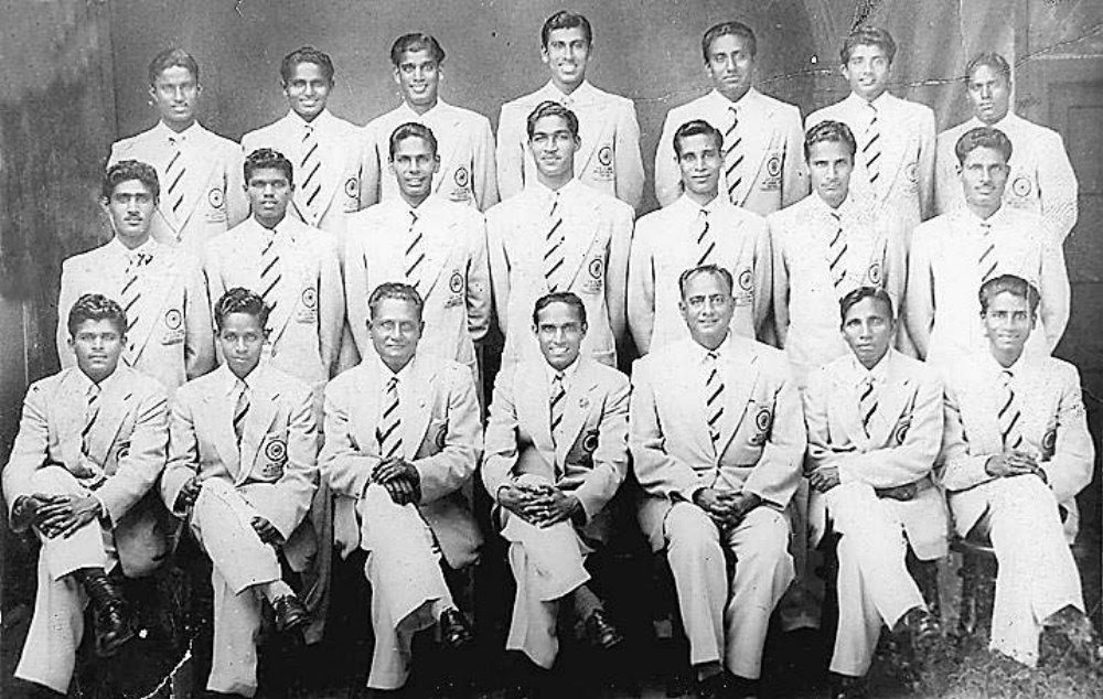 P. K. Banerjee (fourth from left) was a part of the Indian football team which came fourth at the 1956 Olympics.